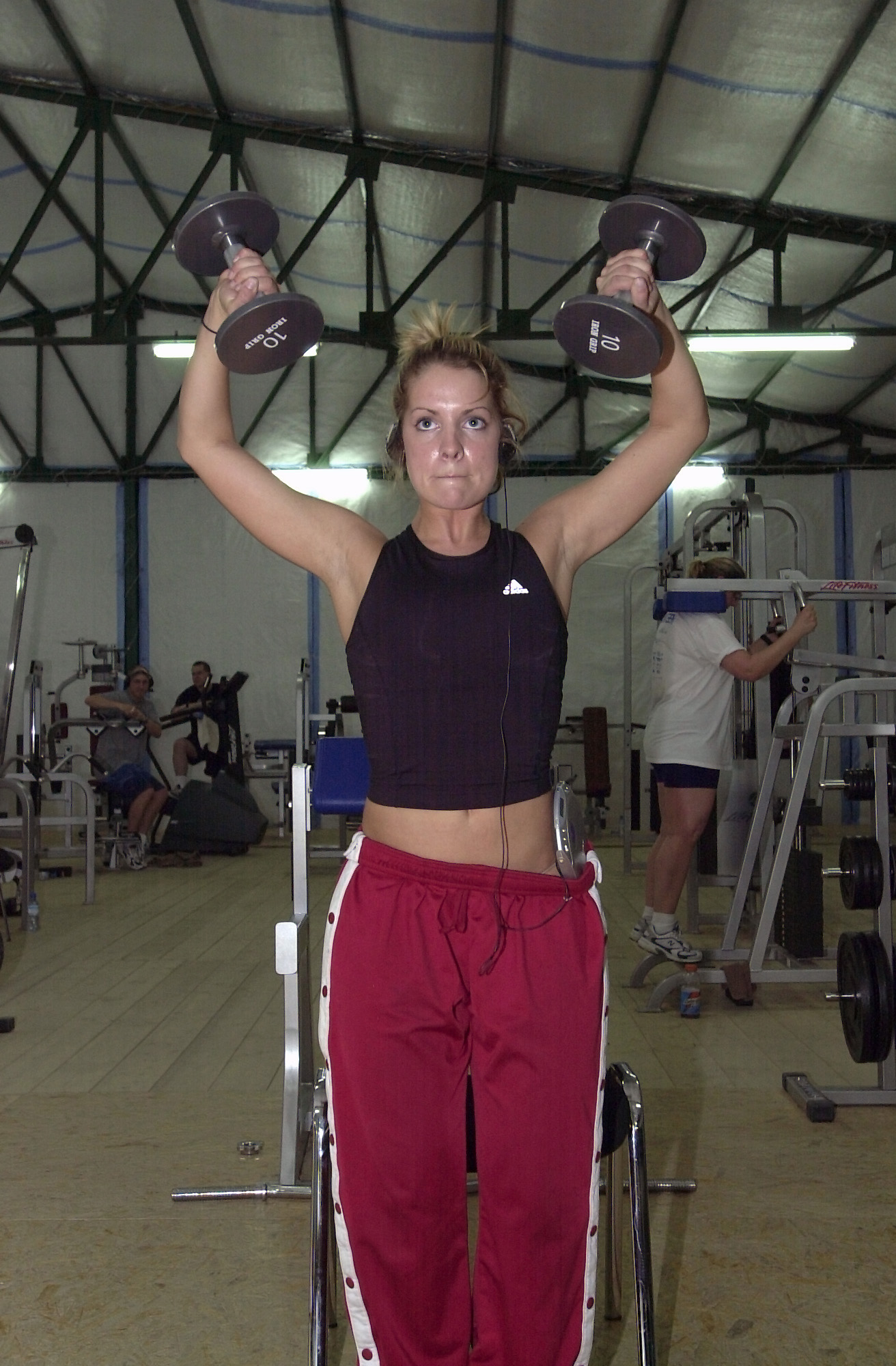 US Air Force (USAF) Airmen First Class (A1C) Lenee Walker, Emergency Actions Controller, Royal Air Force (RAF) Lakenheath, United Kingdom (UK) lifts weights at the new fitness center at Mihail Kogalniceanu Air Base (AB), Romania, during Operation IRAQI FREEDOM.